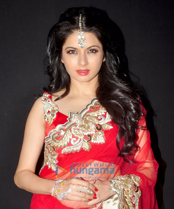 Bhagyashree at Anu Ranjan's NGO Beti fashion show and the launch of Aakanksha Nimoonkar's documentary trailer 'main tamanna'